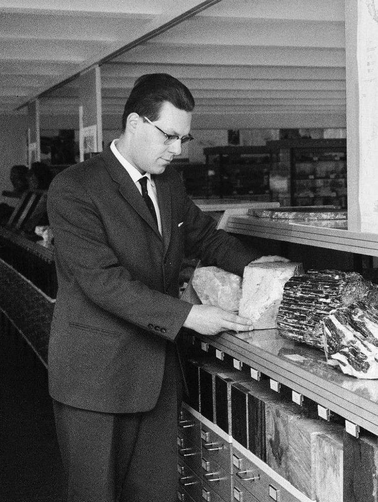 Photograph of the Finnish geologist Ilkka Laitakari (1929–1996) at the museum of the institute of geology, Espoo.